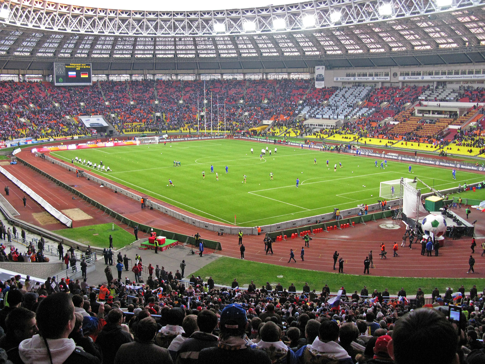 Luzhniki Stadium, Moscow, inside view from B11 sector